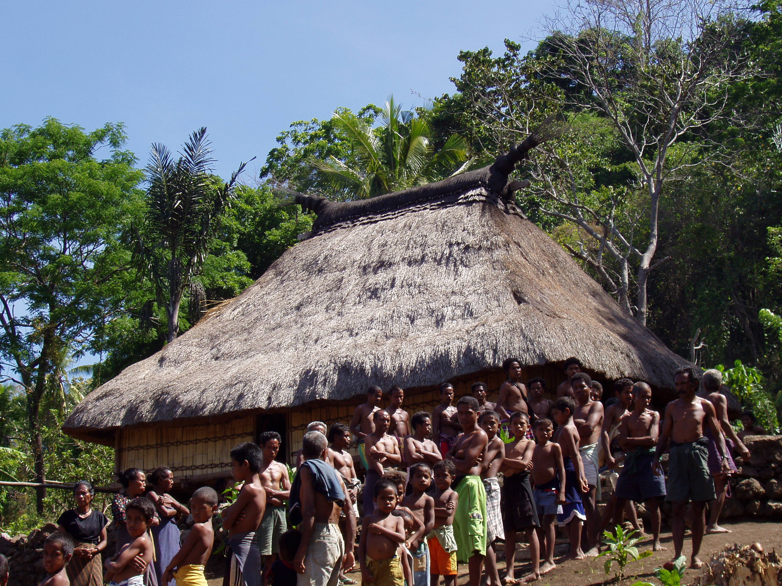 At the village, the Sacred Houses of Watosoba. This is the most sacred house in our village. It belongs to the clan who hold ritual power, who has the right to conduct rituals, create laws and check and balance political power of the Liurai.